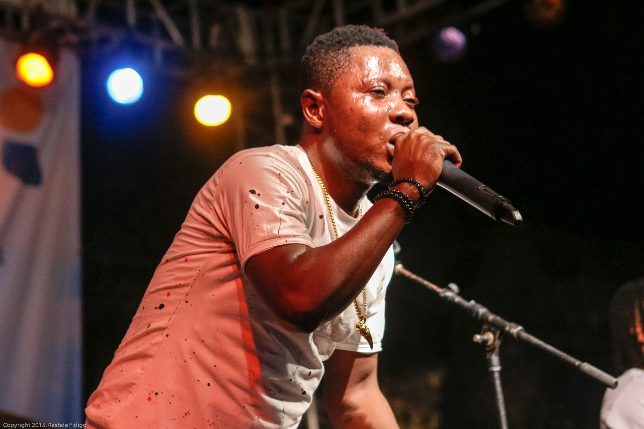 Christian Bella at the 2015 Zanzibar International Film Festival